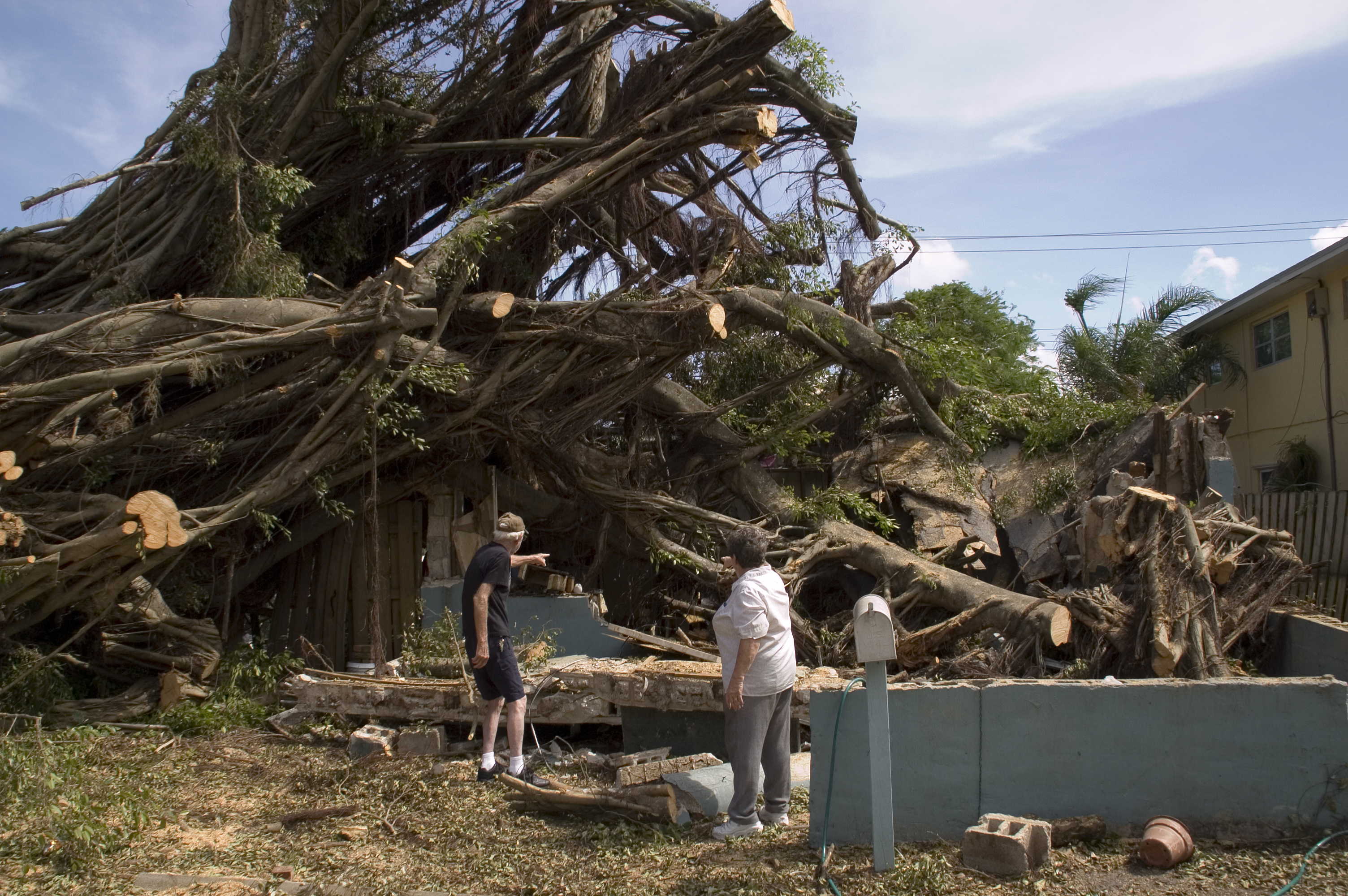 Dania Beach, Broward County, FL, 8-28-05 -- Hurricane Winds from Katrina knocked over huge tree crushing this home. Joann & Orland Douglas point to where they were when the tree fell on them. Orland was knocked down by the tree and Joann was trapped under the rubble and had to be rescued. Many Mobile homes and homes are damaged and residents are displaced. MARVIN NAUMAN/FEMA photo